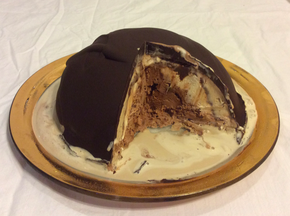 Bombe glacée. This is a layered ice cream dessert. From the center, the layers here are chocolate ice cream with chocolate chips; vanilla ice cream; a thin layer of chocolate ganache; coffee ice cream; and finally a thick layer of Alice Medrich's Sarah Bernhardt chocolate glaze. Although similar to an ice cream cake, there is no cake (or any other baked goods) in this gluten-free dessert. It is also similar to Baked Alaska, which has the same sort of center, but baked meringue on the outside in place of the chocolate glaze.